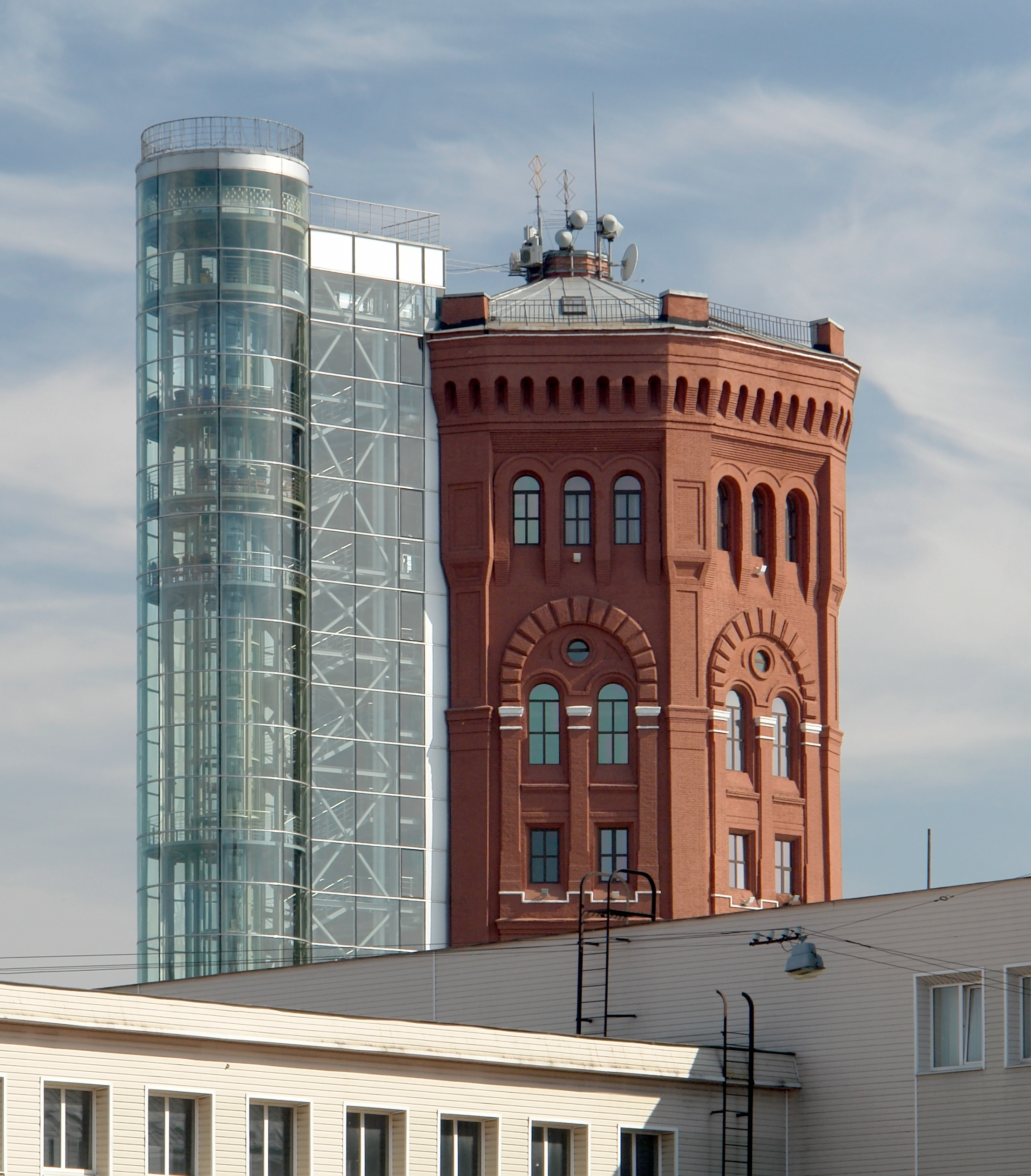 Water tower, St. Petersburg, view from Smolynaya nabereznaya. Currenly Used as a Museum of Water.